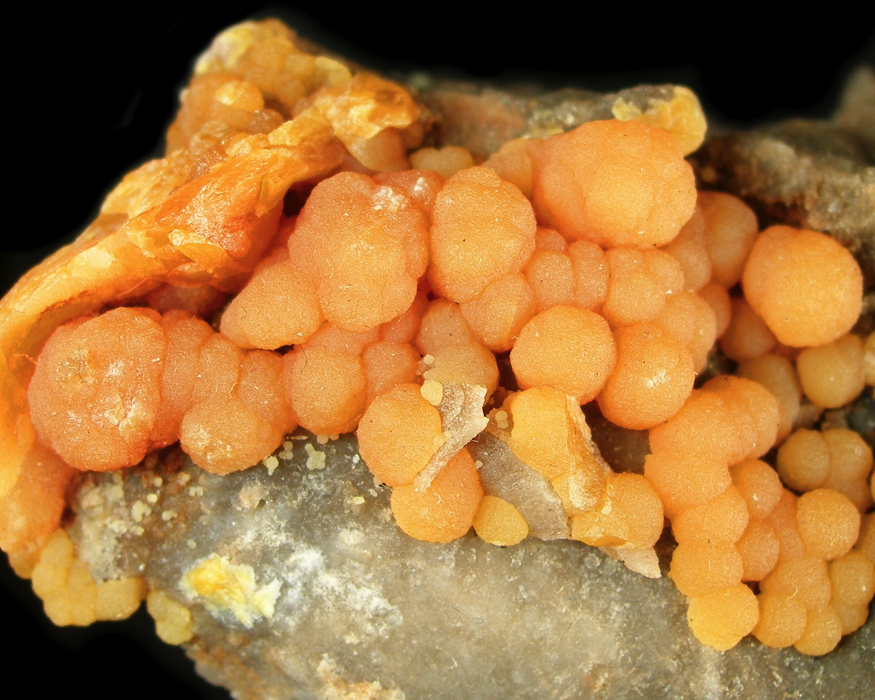 Mimetite Locality: Haus Baden Mine, Sehringen, Badenweiler Pb mining District, Badenweiler, Black Forest, Baden-Württemberg, Germany (Locality at ) Size: small cabinet, 5.9 x 4.3 x 2.4 cm Mimetite Beautiful beige spherical aggregates of botryoidal mimetite, from a summer 2009 discovery. Unusual locality, and good contrast , make these highly interesting